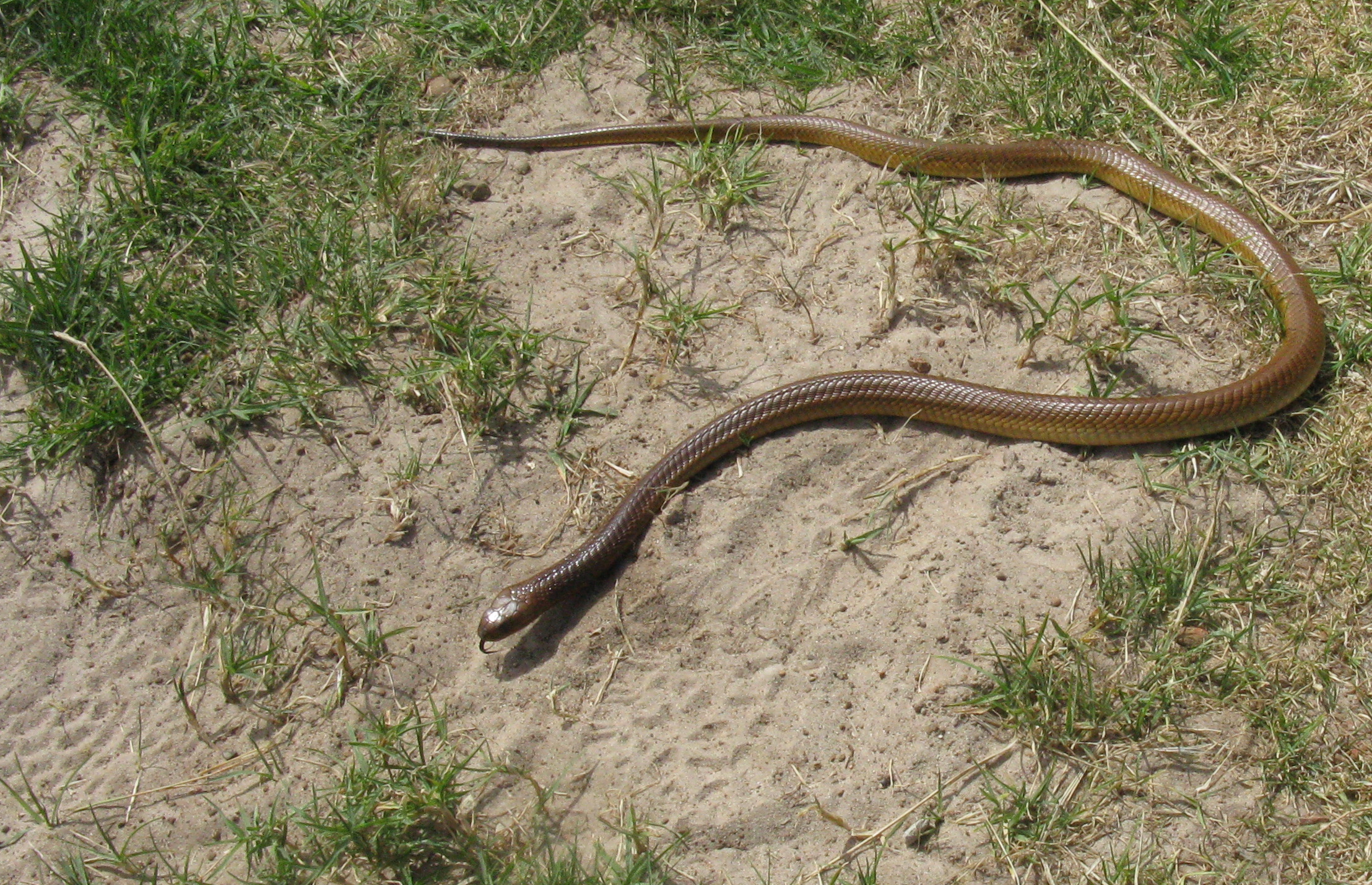 This is one of several colour variations of the Cape Cobra, Naja nivea